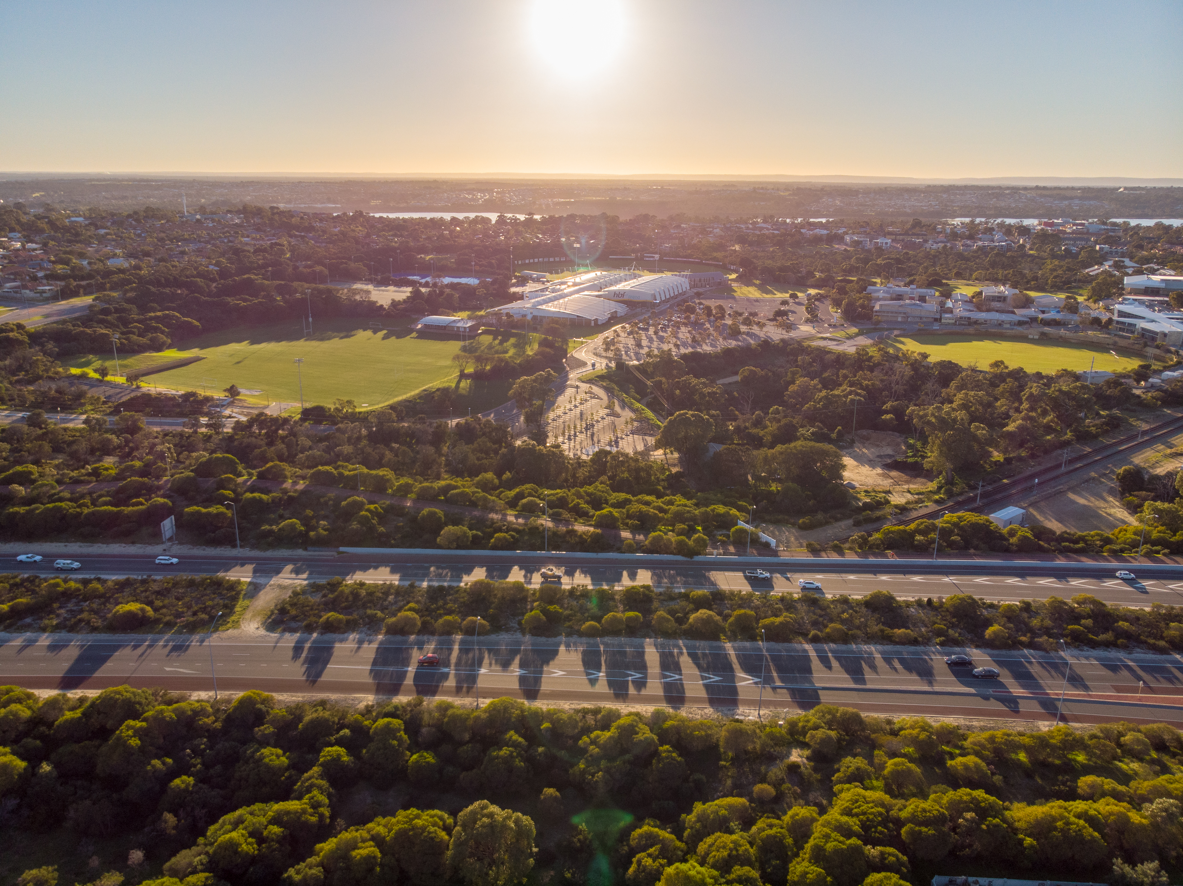 Looking east over the Mitchel Freeway (near Moore Drive overpass) and the Joondalup HBF Arena